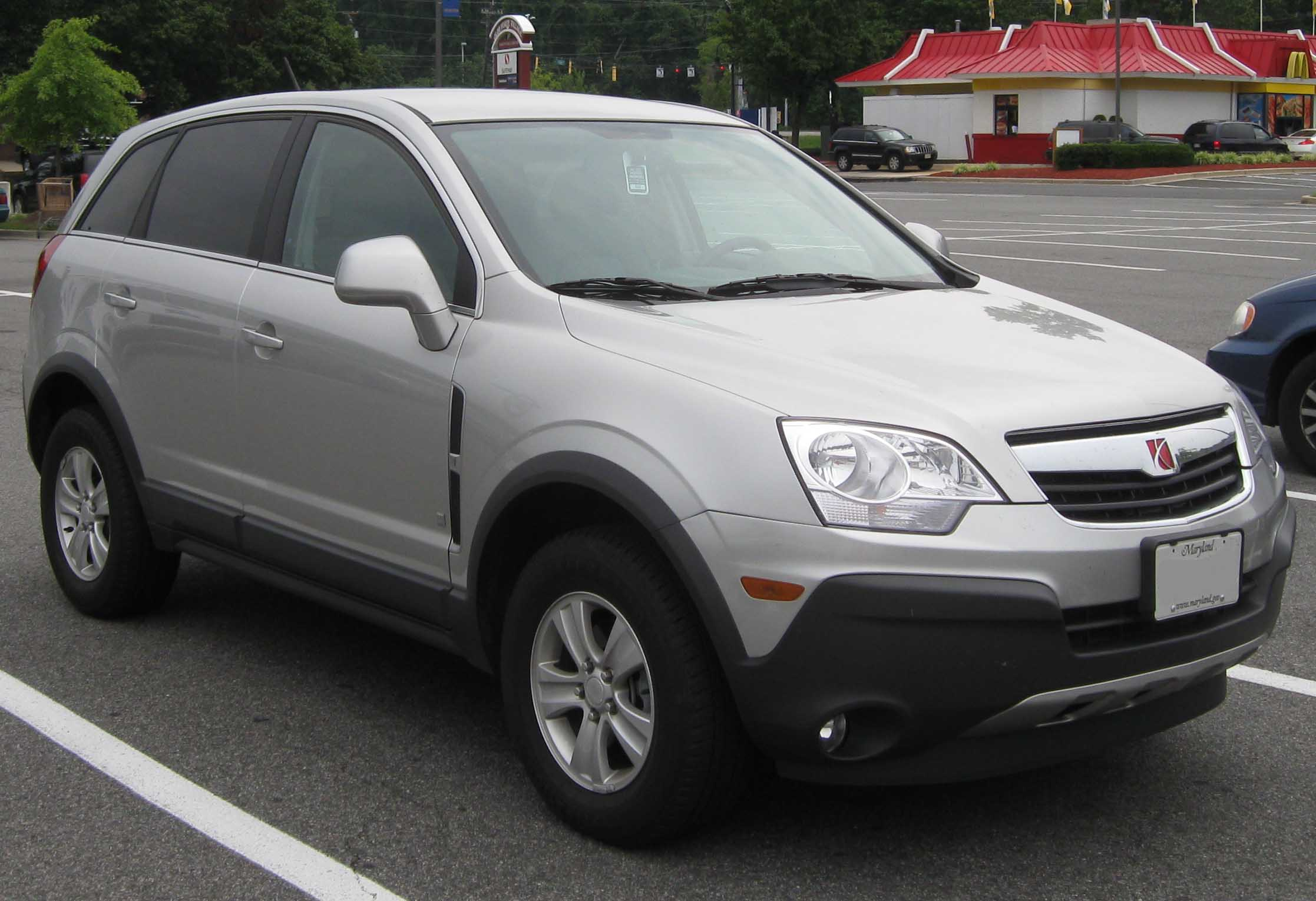 2008 Saturn Vue photographed in Fort Washington, Maryland, USA.